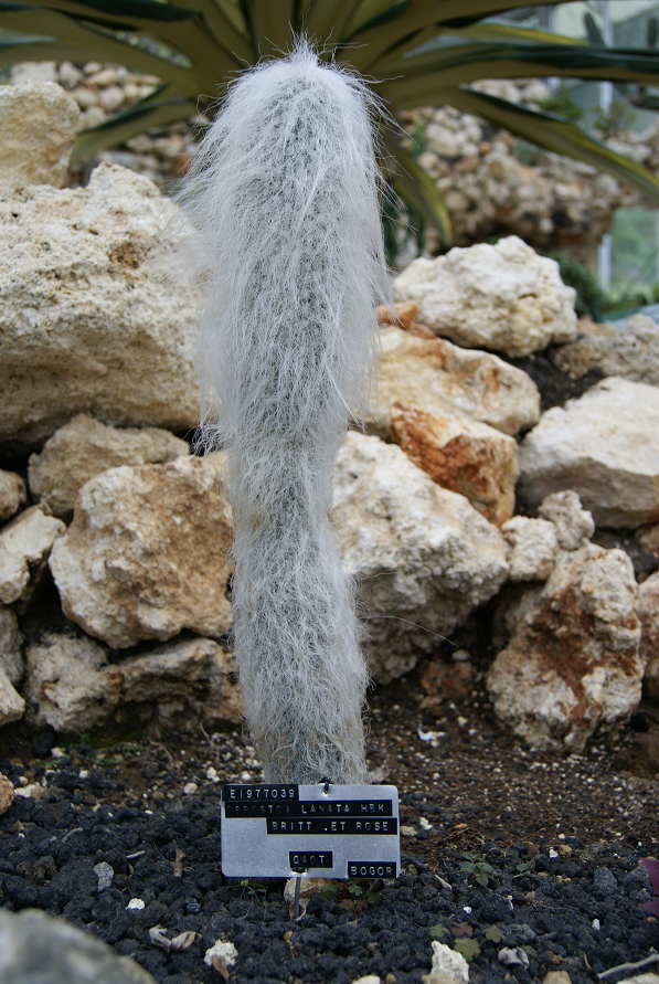 Cactaceae Espostoa lanata (HBK) Britt & Rose, photo is taken in Bedugul Botanical Garden, Bali, Indonesia